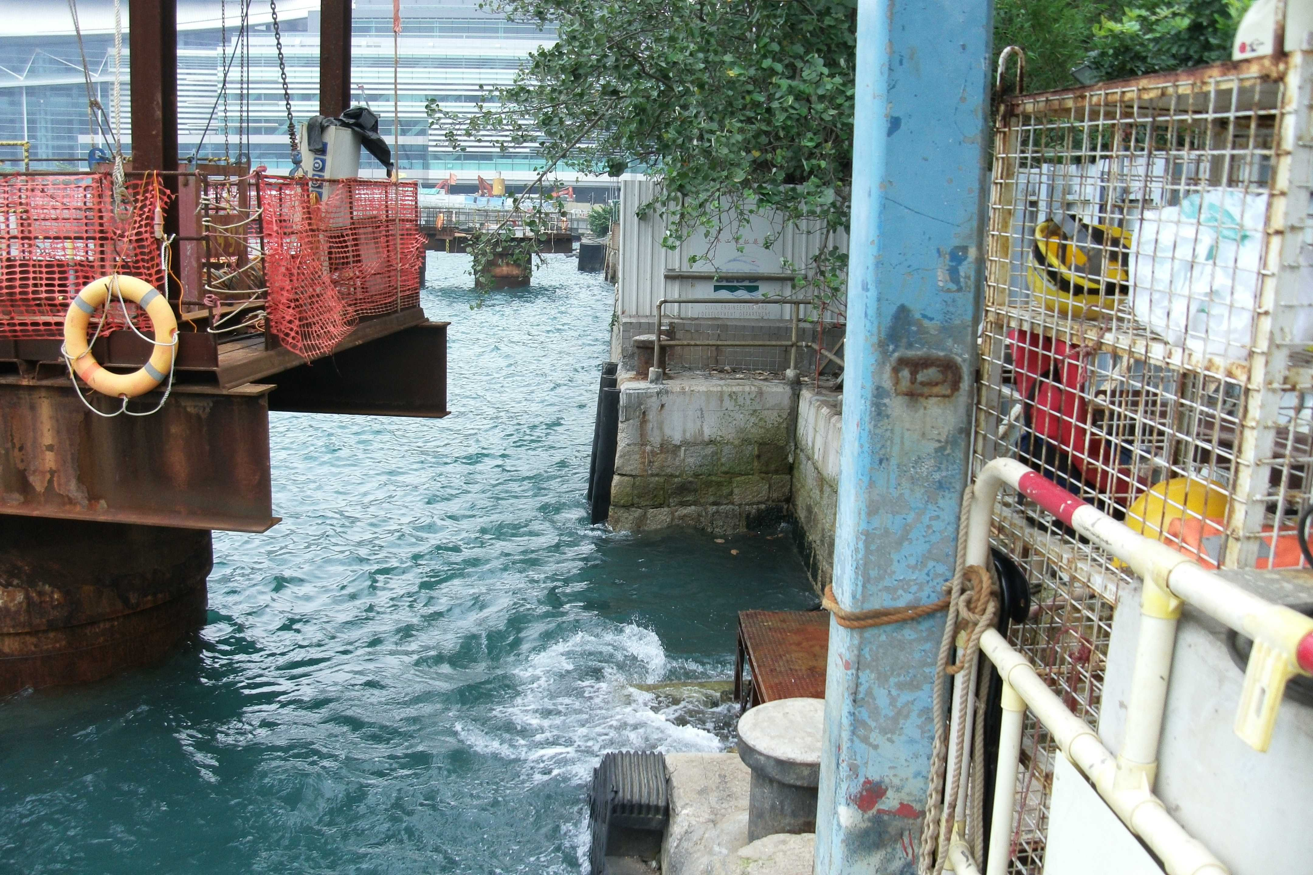 Closed fenwick public pier